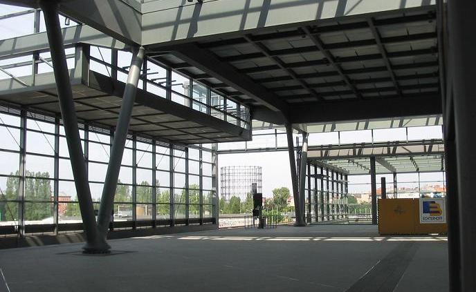 New Station ‘'Südkreuz'‘ (formerly Papestraße)